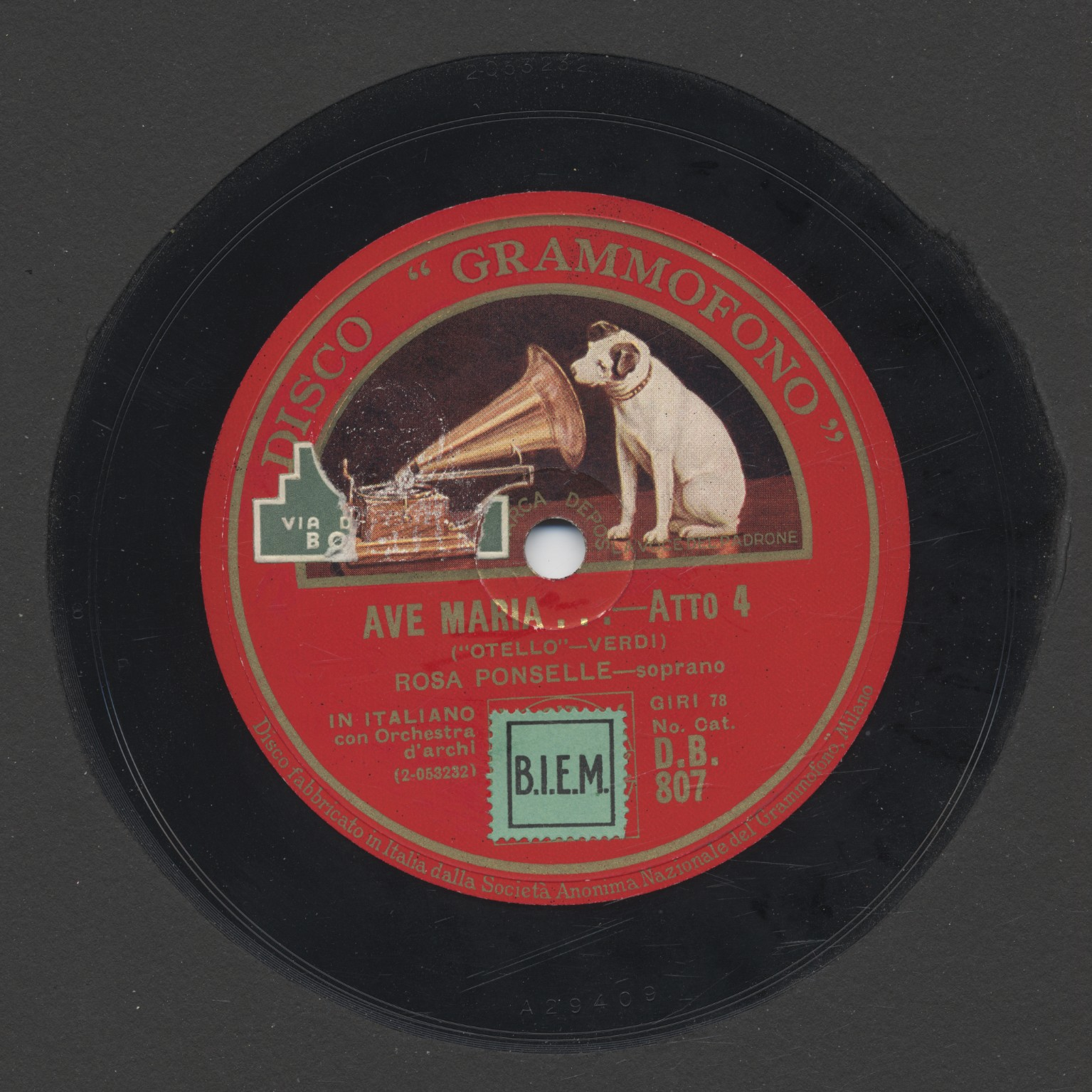 Image of a 78rpm of an aria from Giuseppe Verdi's Otello, recorded by Grammofono/La voce del padrone